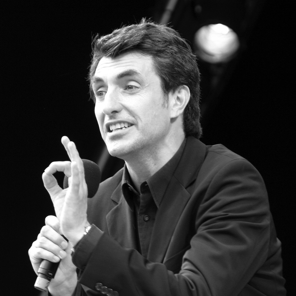 Klaus Jürgen „Knacki“ Deuser, German entertainer and comedian